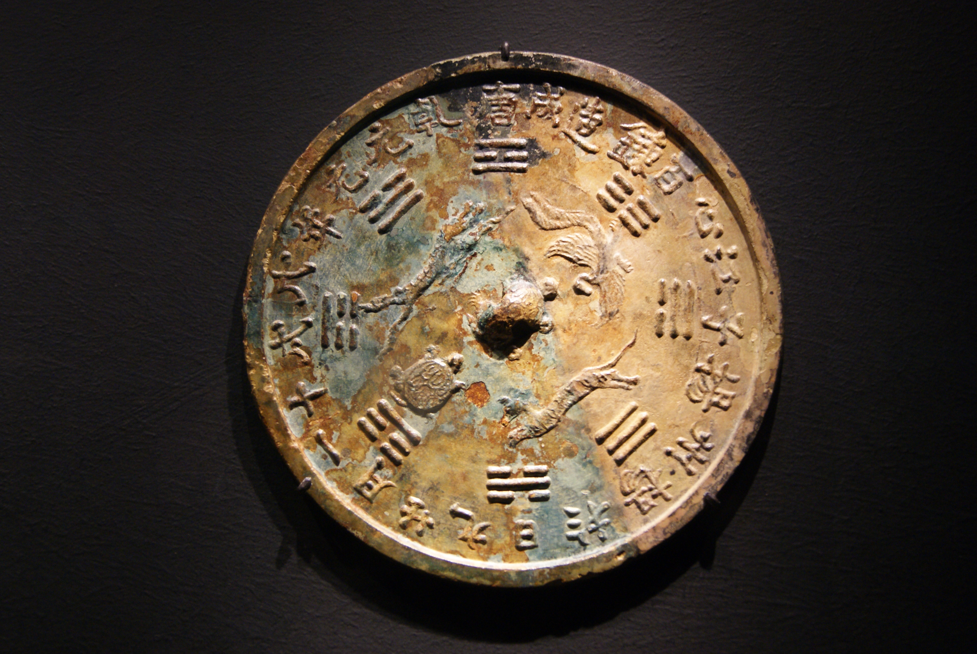 Part of the collection of artifacts from the Belitung shipwreck owned by the Sentosa Leisure Group and the Government of Singapore, photographed while displayed at an exhibition called Shipwrecked: Tang Treasures and Monsoon Winds at the ArtScience Museum, Marina Bay Sands, Singapore, from 19 February 2011 to 31 July 2011.